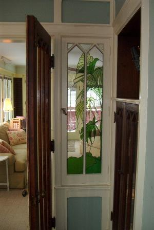 Sanford House, 211 Summit Avenue, Syracuse, New York. Pic 3.